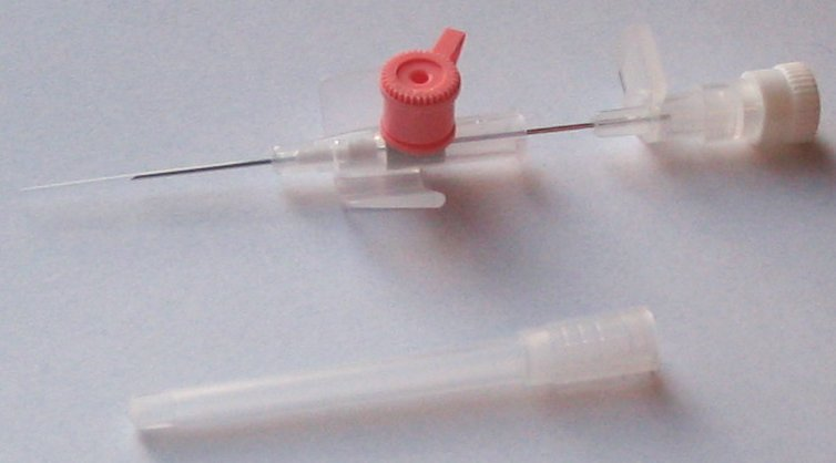 Intravenous cannula of brand Venflon (manufactured by BD / Becton Dickinson Infusion Therapy AB). 20G (1.0 x 32 mm). Sold in the UK. Inner needle partly removed. By me. Photo taken in 2006.